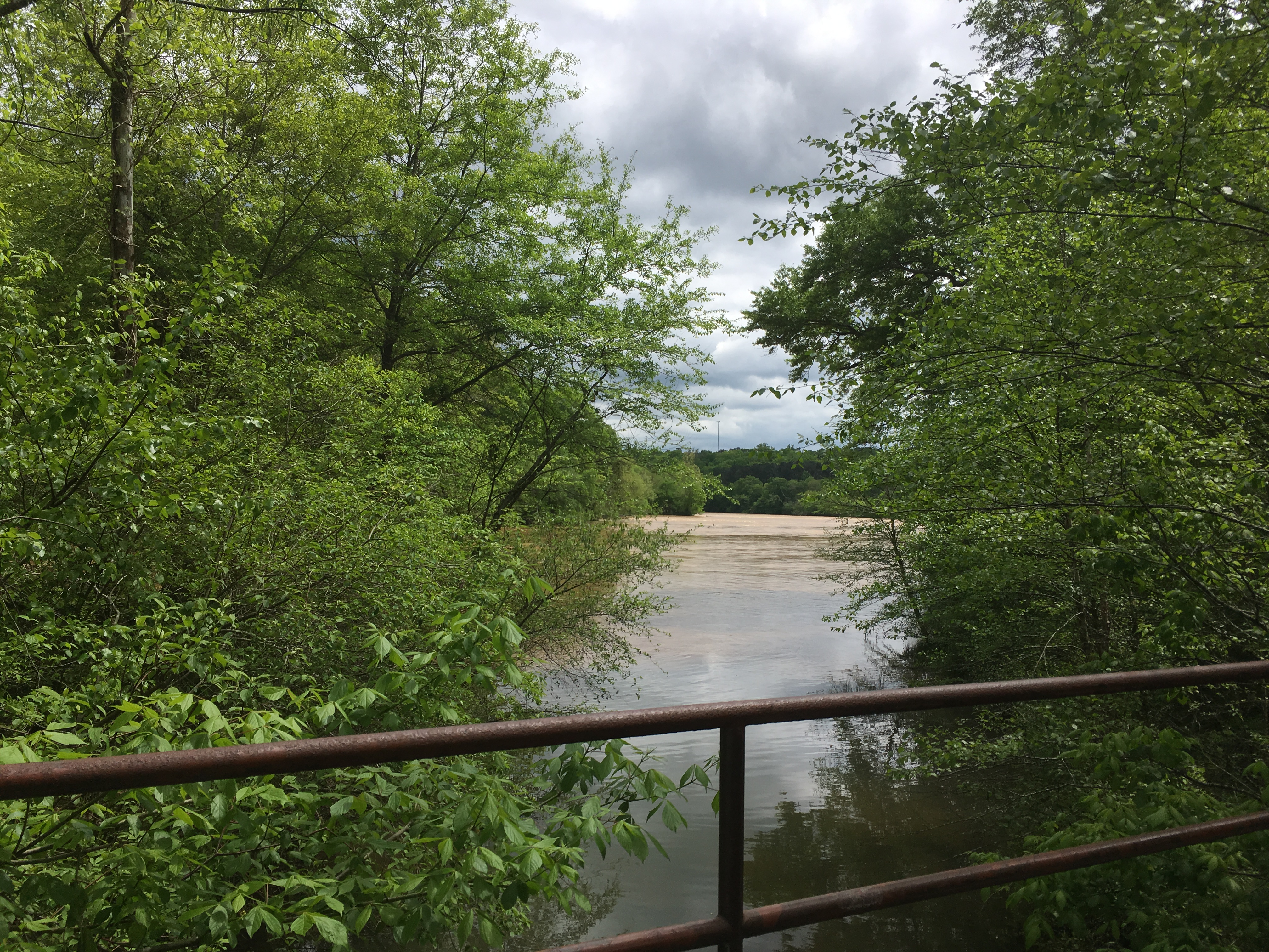 The Chattahoochee River in Sandy Springs